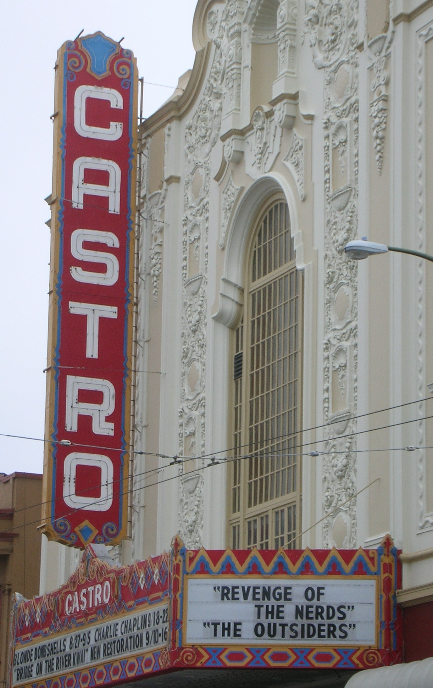 Castro's Theatre in Castro Street